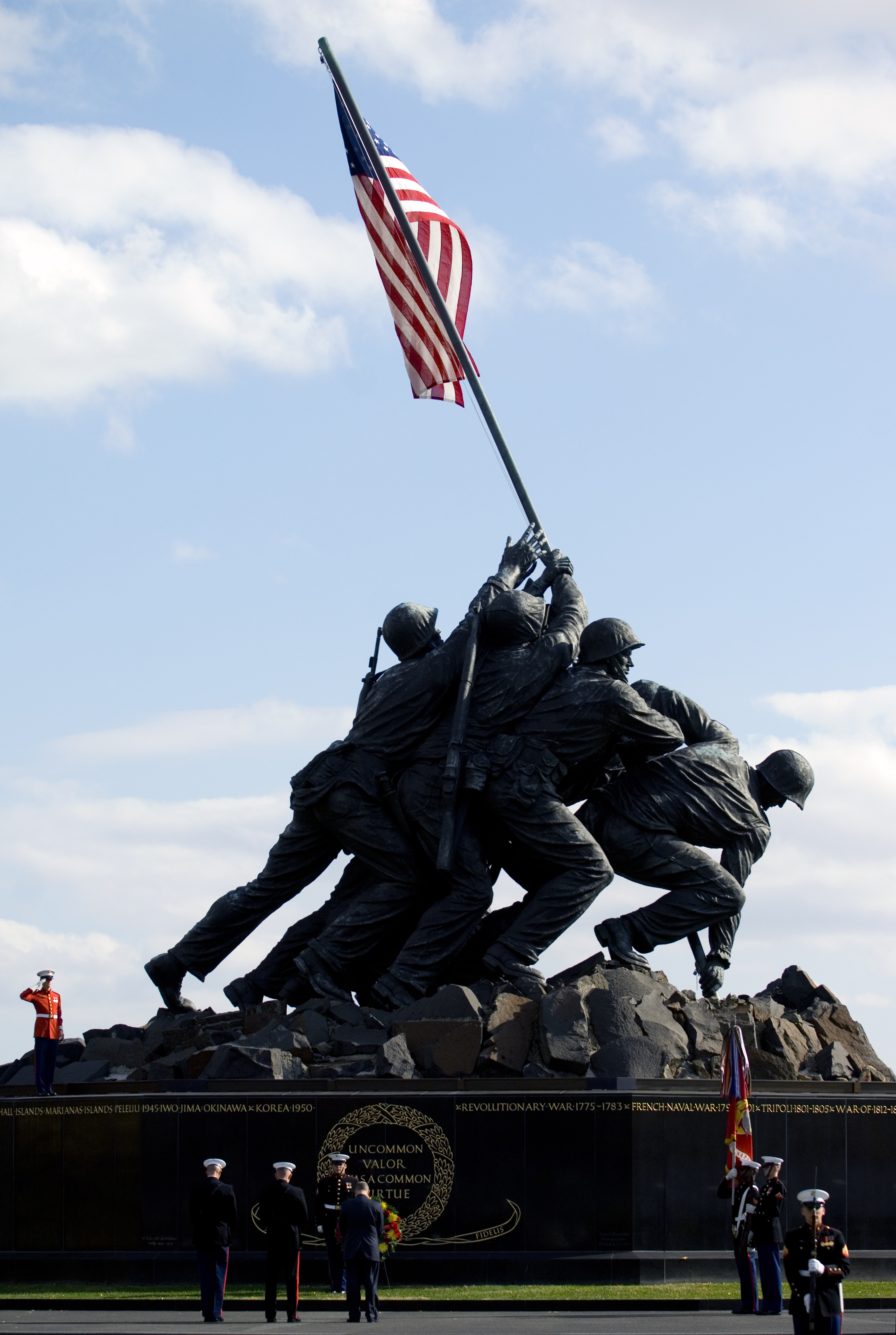 081110-N-5549O-141 WASHINGTON (November 10, 2008) Secretary of the Navy (SECNAV) the Honorable Dr. Donald C. Winter pays respect to fallen Marines during a wreath laying ceremony in honor of the 233rd Marine Corps birthday at the Marine Corps War Memorial. The sculpture of five Marines and a Navy Corpsman raising an American flag atop Mount Siribachi commemorates the 6,800 service members who died capturing the Japanese island of Iwo Jima during World War II. (U.S. Navy photo by Mass Communication Specialist 2nd Class Kevin S. O'Brien/Released)